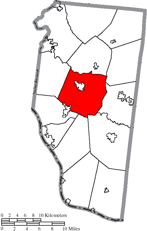 Map of the municipal and township boundaries of Clermont County, Ohio, United States, as of the 2000 census, with the location of Batavia Township highlighted. Township borders are shown only in unincorporated areas in order to differentiate incorporated and unincorporated areas more clearly.